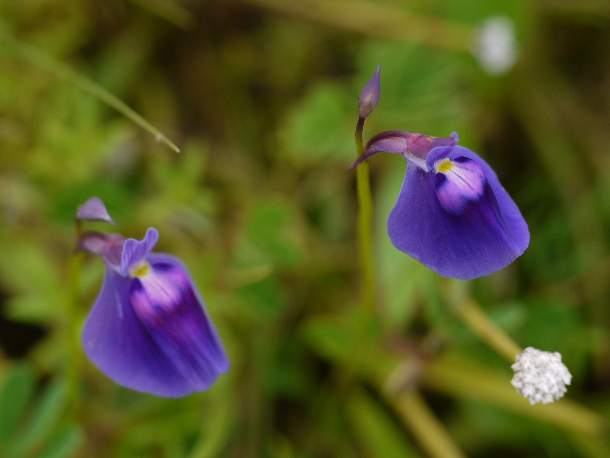 Lentibulariaceae (bladderwort family) » Utricularia purpurascens yoo-trik-u-LAR-ee-uh -- having bladders or shaped like little bottles pur-pur-ESS-kenz -- becoming purple commonly known as: purple bladderwort • Konkani: कायळॅ दॉळॉ kayale dolo • Marathi: सीतेची आसवे seetechi aswe Endemic to: Western Ghats (of India) References: Flowers of India • Flowers of Sahyadri by Shrikant Ingalhalikar